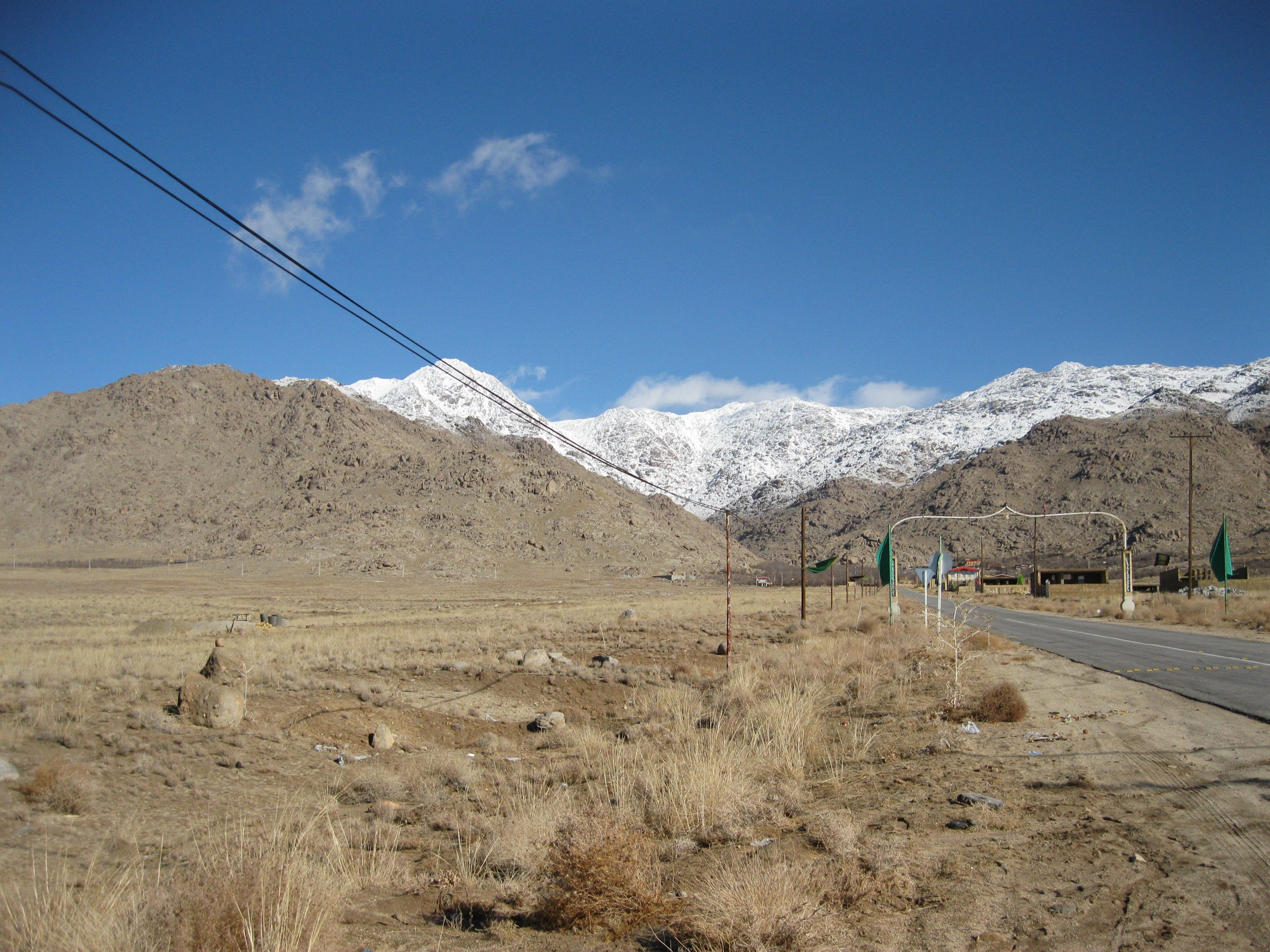 here is pandar.